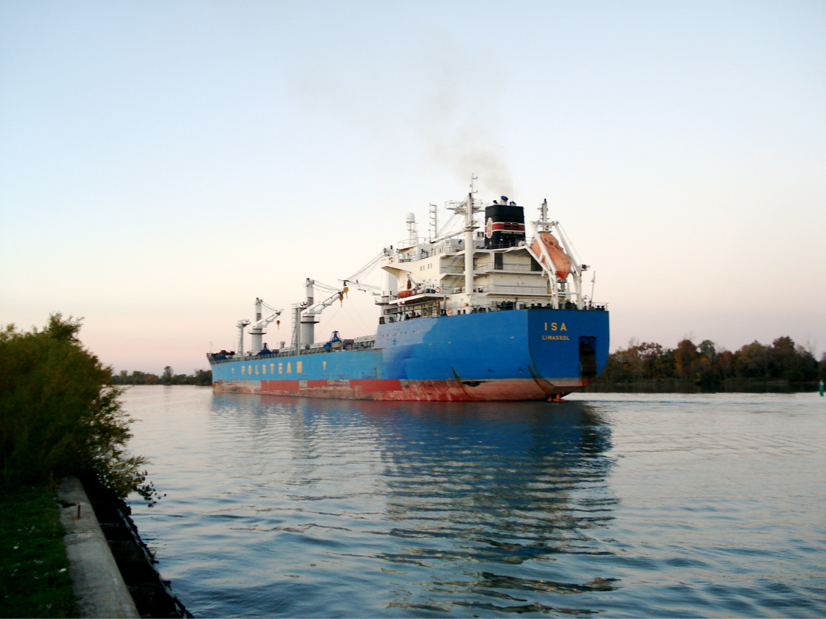 Isa of Polsteam (Polska Żegluga Morska) transiting the Welland Canal, just north of St. Catharines Skyway bridge. Photo taken on October 7, 2006.